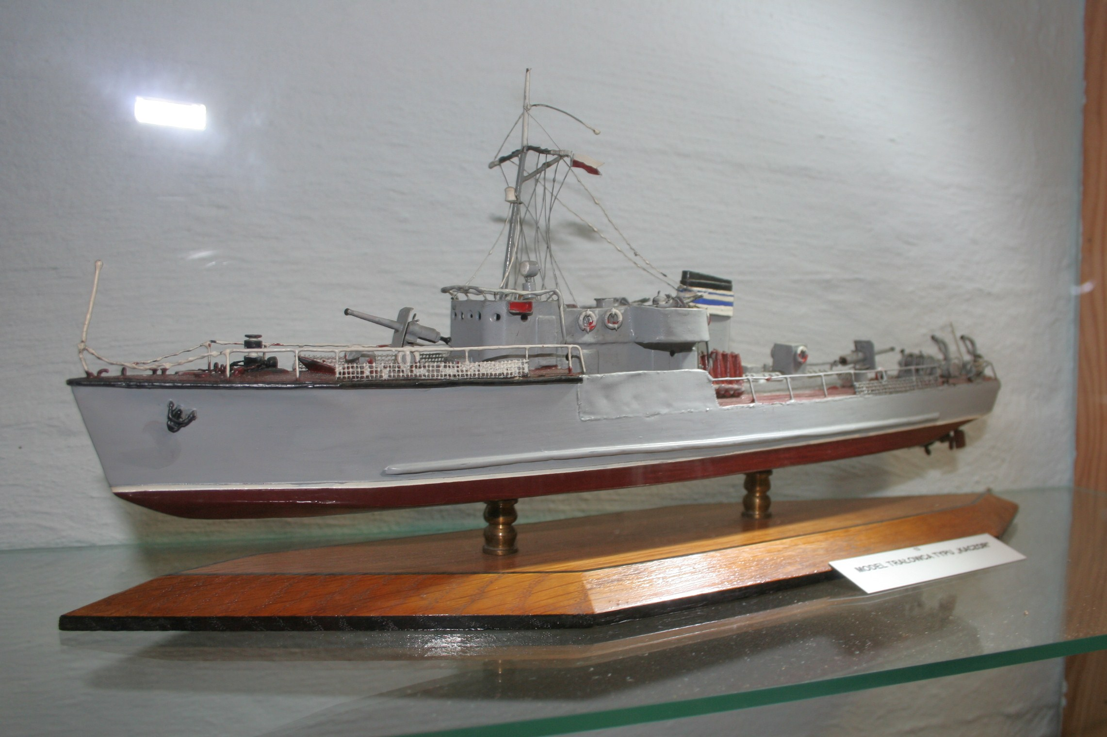 Collections of Museum of Coastal Defence.